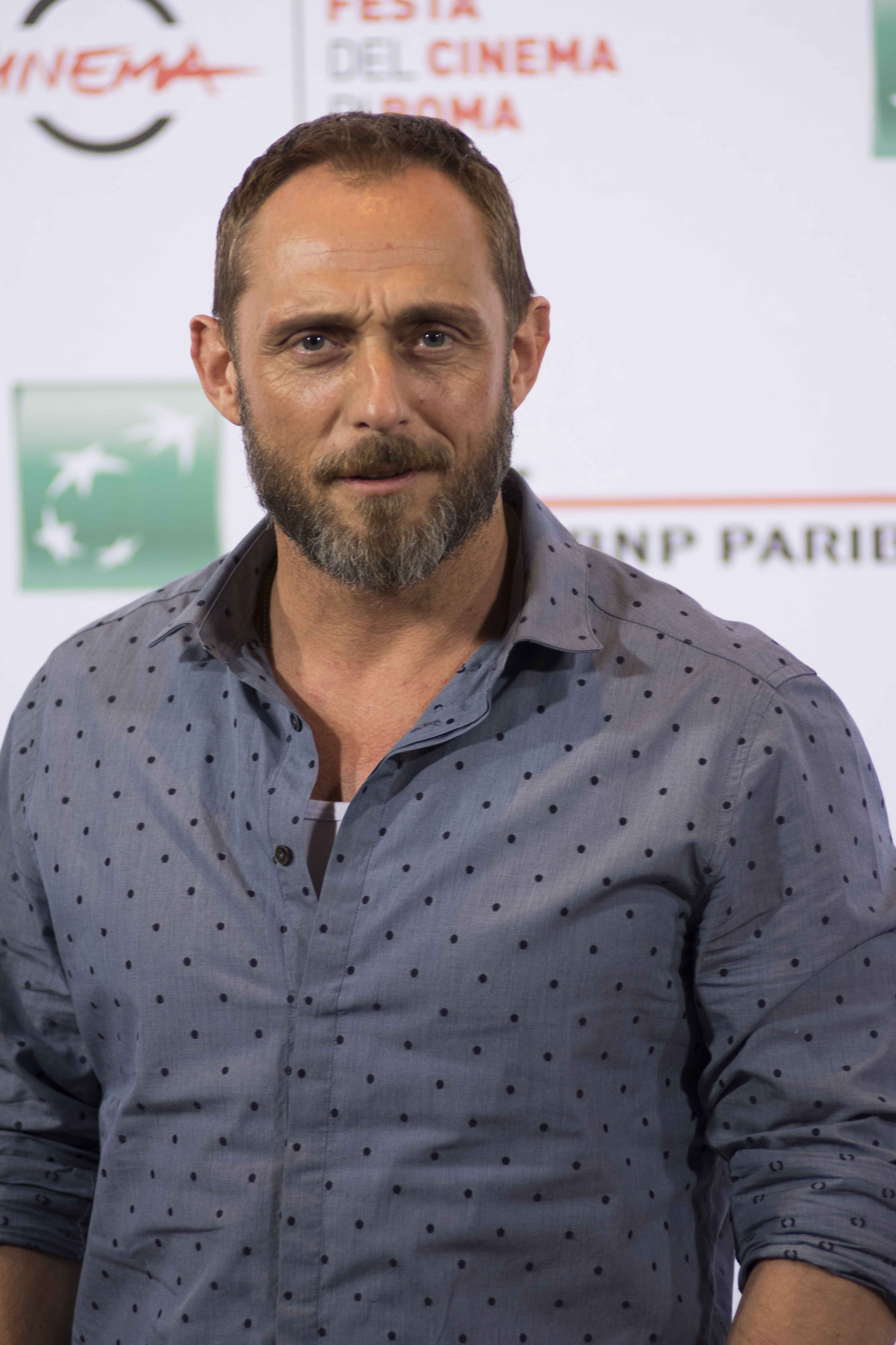 Roland Moller